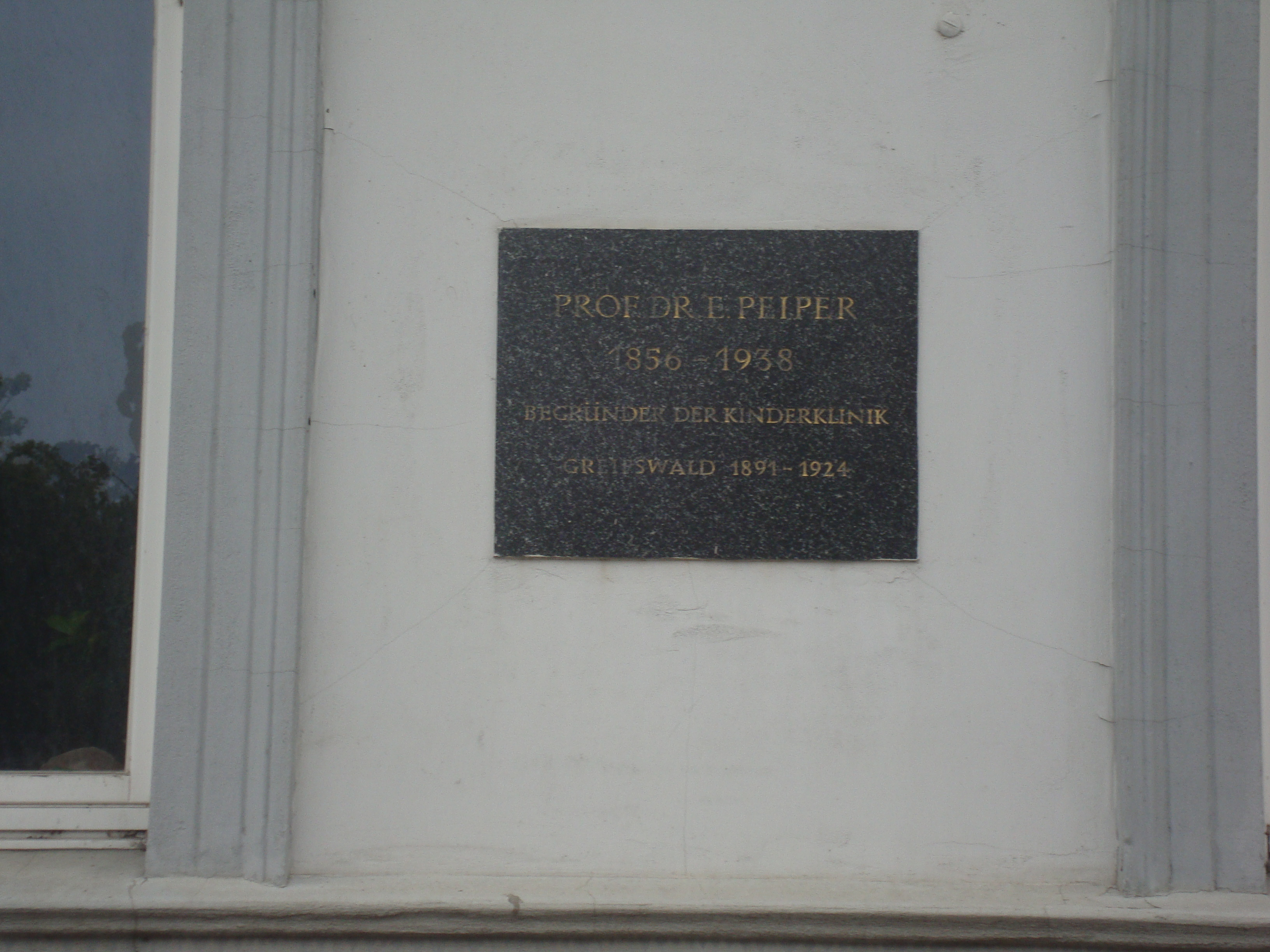 Commemorative plaque for Erich Peiper at Bahnhofstraße 52 in Greifswald, Germany.